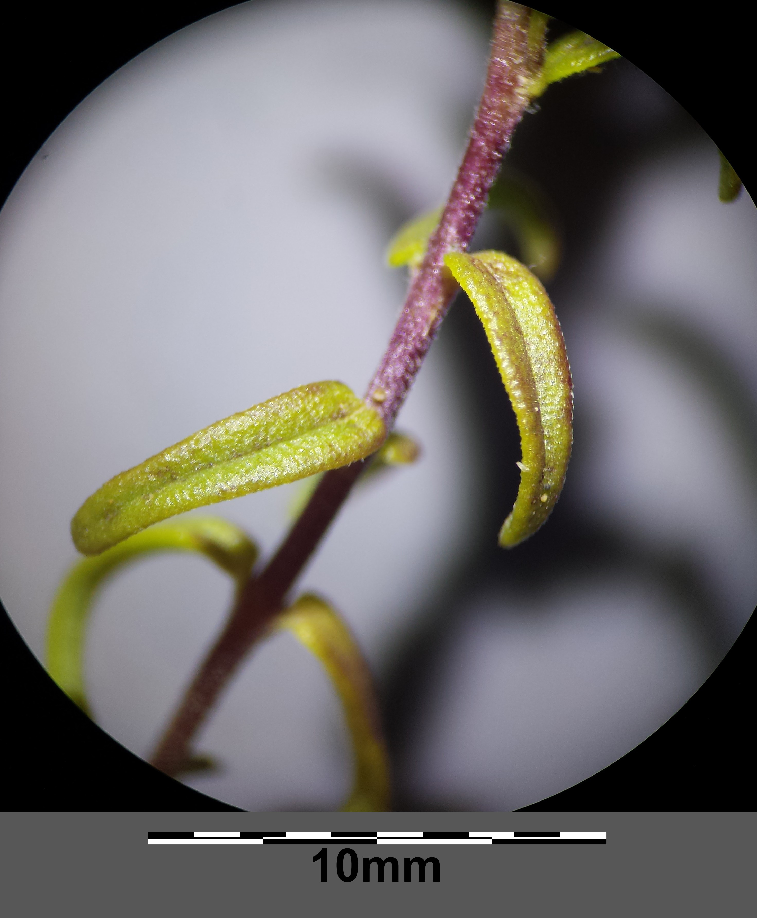 Stem with leaves Taxonym: Odontites luteus ss Fischer et al. EfÖLS 2008 ISBN 978-3-85474-187-9 Location: Loess hill to the west of Großebersdorf, district Mistelbach, Lower Austria - ca. 200 m a.s.l. Habitat: semi-dry grassland